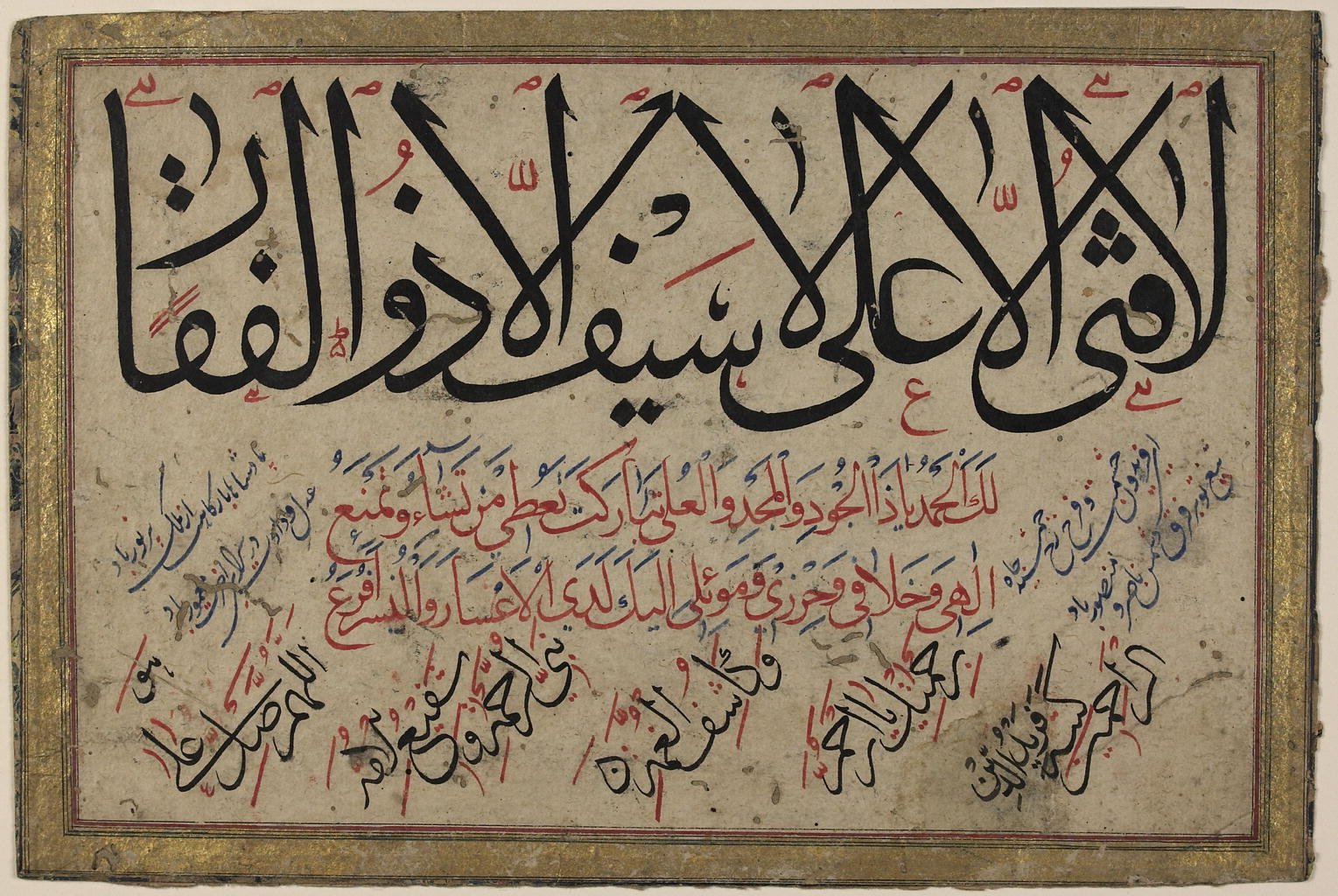 This single panel praises Muhammad's son-in-law 'Ali and his famous double-edged sword Dhu al-Fiqar, which he inherited from the Prophet, with the topmost statement executed in black ink: "There is no victory except 'Ali [and] there is no sword except Dhu al-Fiqar" (la fath ila 'Ali, la sayf ila Dhu al-Fiqar). Script: various.